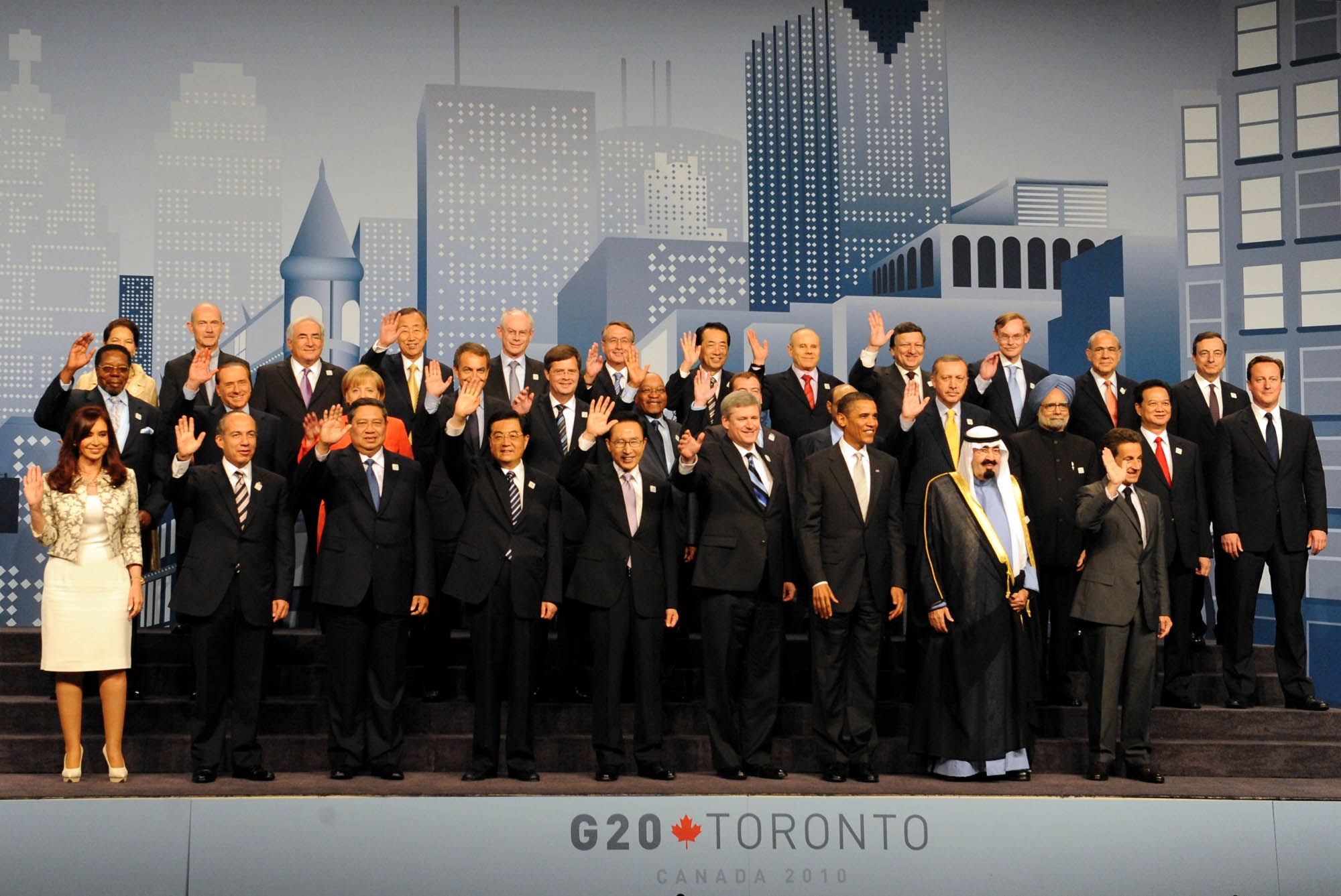 Group photo of the 2010 G-20 Toronto summit family photo — Delegates from left to right (front row): Kirchner, Calderón, Yudhoyono, Hu, Lee, Harper, Obama, Abdullah, Sarkozy; (middle row): Mutharika, Berlusconi, Merkel, Zapatero, Balkenende, Zuma, Medvedev, Zenawi, Erdoğan, Singh, Dũng, Cameron; (top row): unidentified female, Lamy, Strauss-Kahn, Ban, Rompuy, Swan, Kan, Mantega, Barroso, Zoellick, Gurría, Draghi